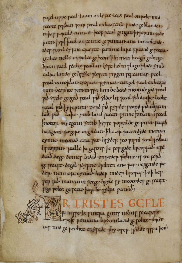 British Library MS Cotton Tiberius B I, f. 115v